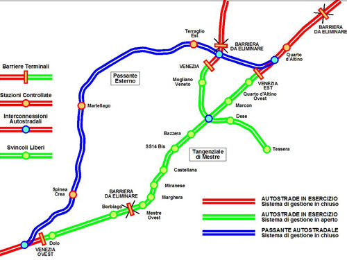 Map of the Mestre Motorway Bypass, Italy.